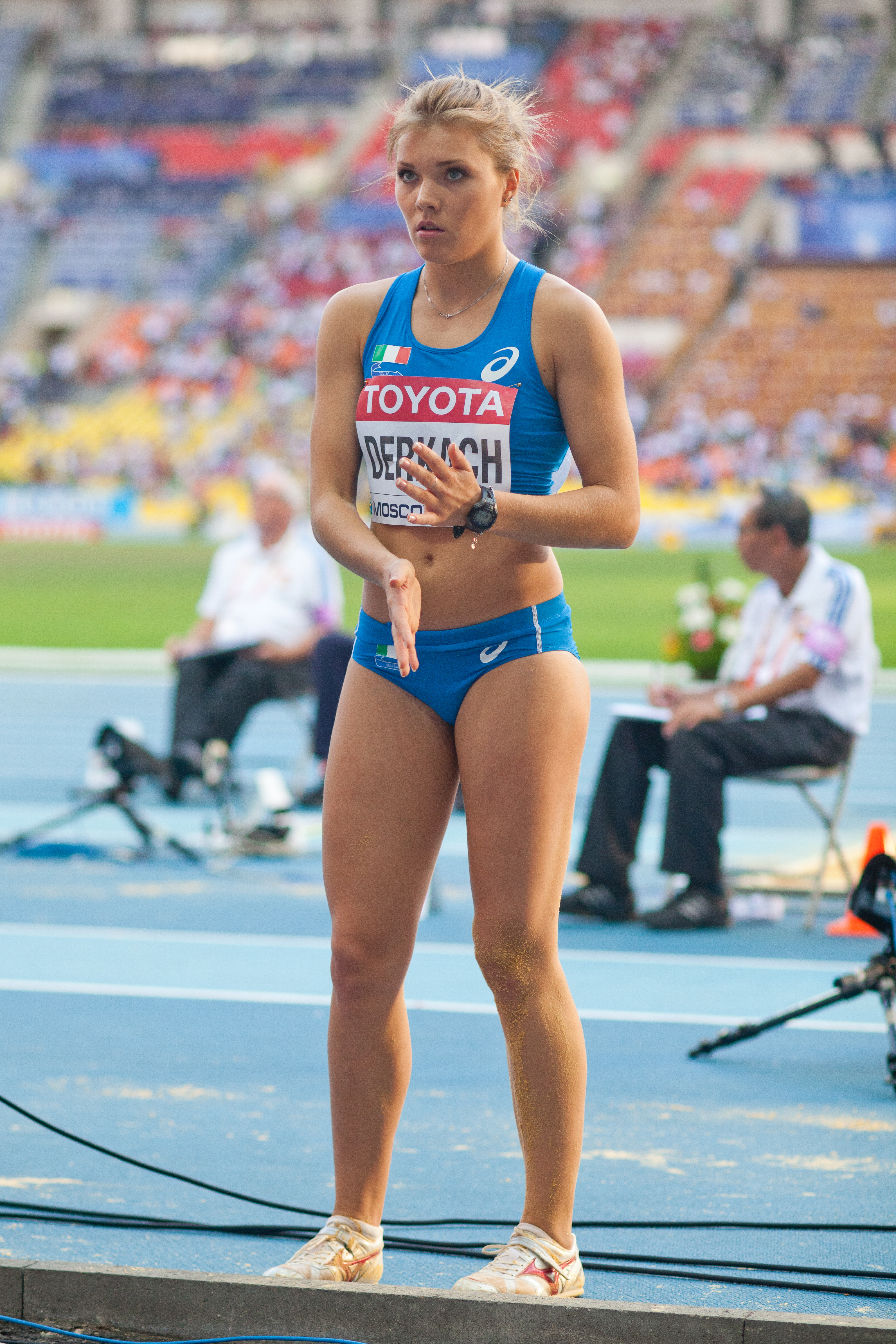 Dariya Derkach during 2013 World Championships in Athletics in Moscow.